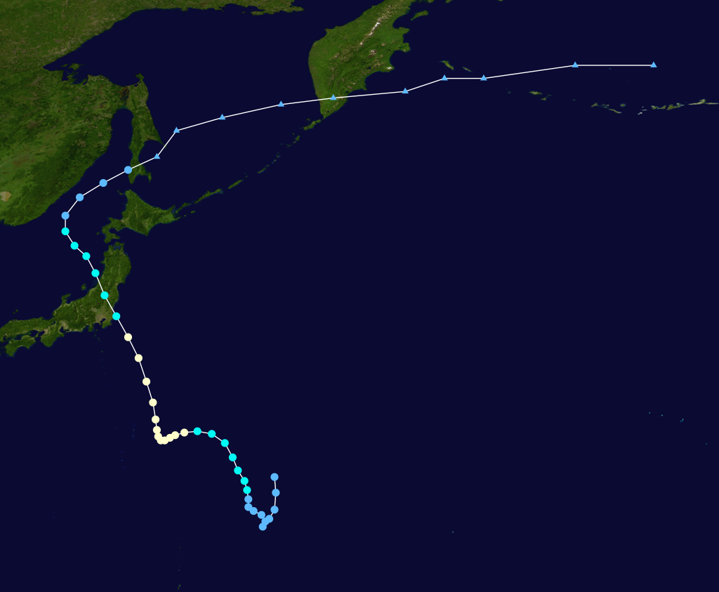 Typhoon Mac 1989 track. Uses the color scheme from the Saffir-Simpson Hurricane Scale.